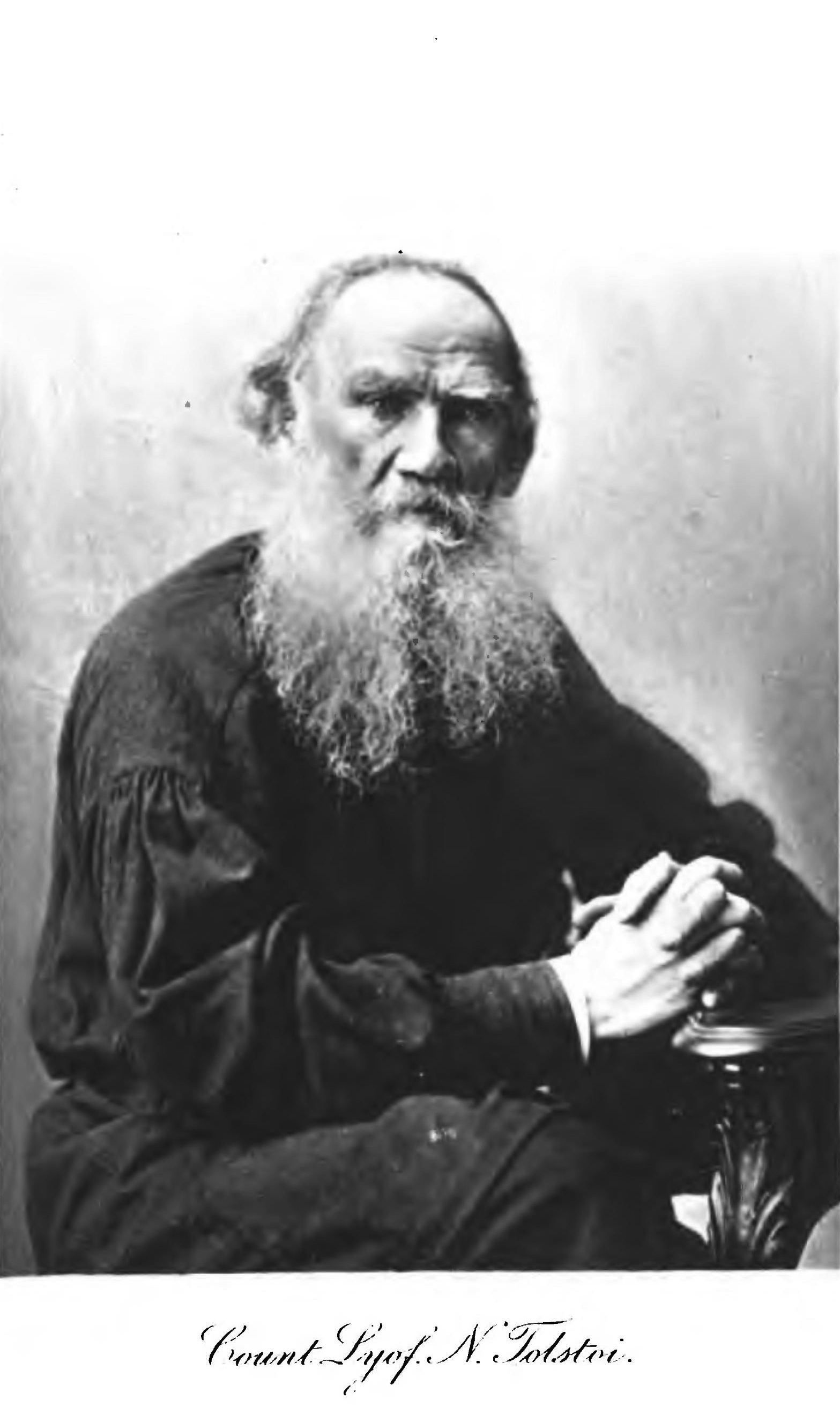 This is a photogravure displayed in More Tales from Tolstoi by Robert Nisbet Bain, 1854-1909.